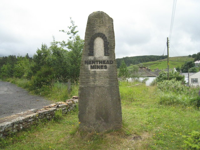 Stone signage for Nenthead mines The site occupied by Nenthead mines is a national heritage centre and mining museum. Further details of this area and its fascinating history can be found here and here .